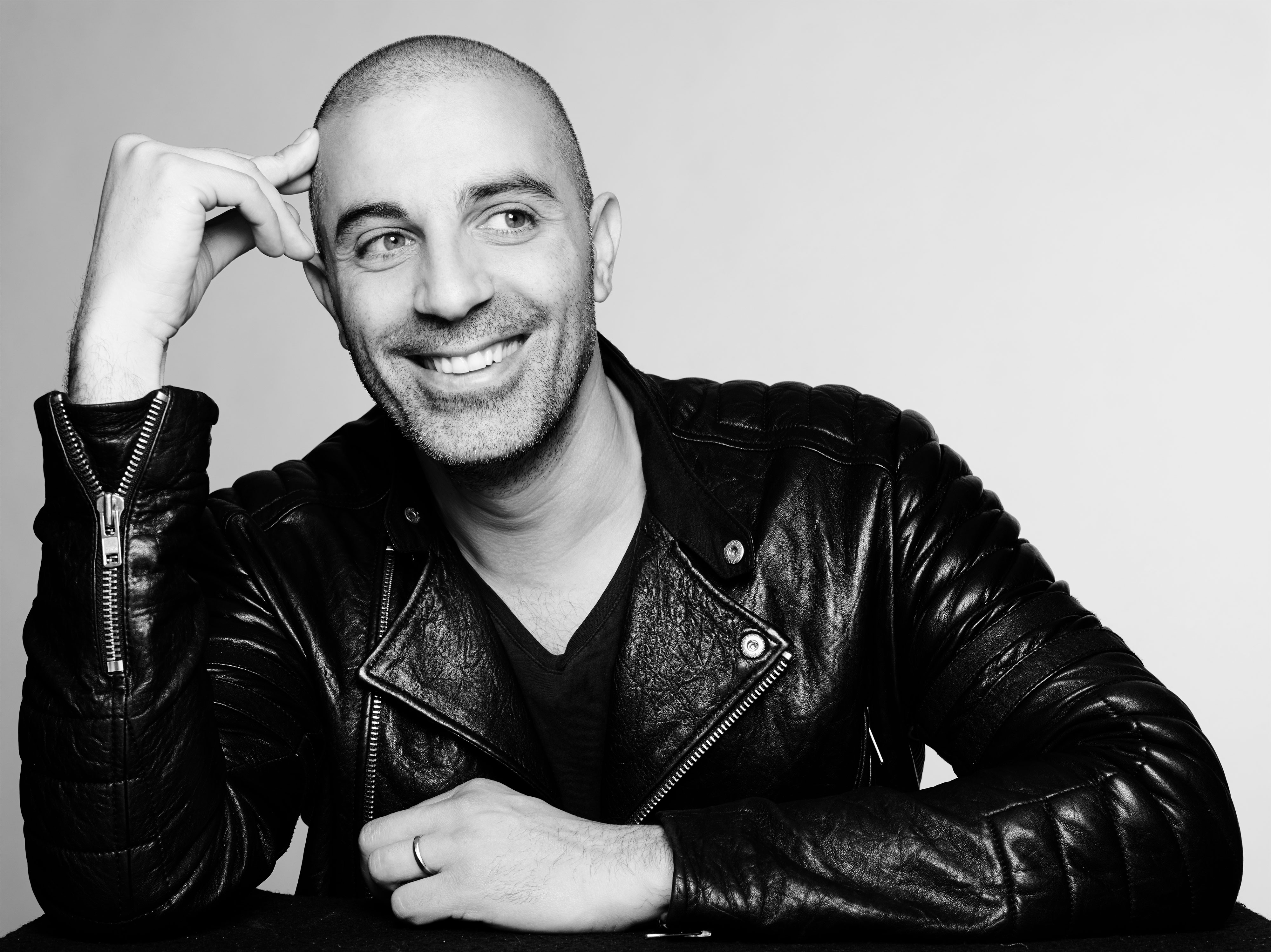 A depiction of the artist